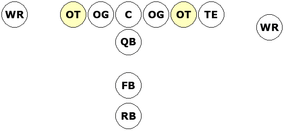 Both Offensive Tackle positions highlighted in an American Football offensive